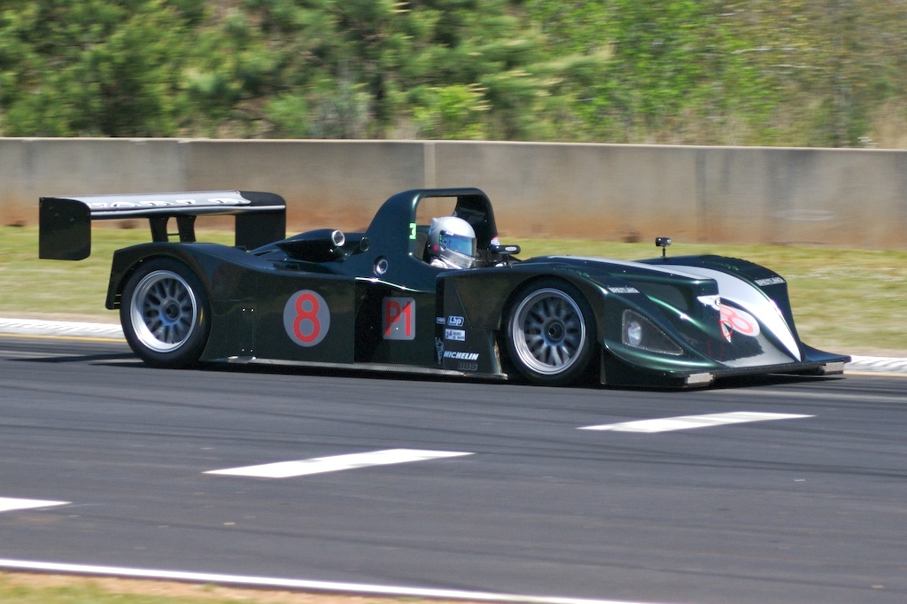 A Lola B2K/10 from a Historic Sportscar Racing event.